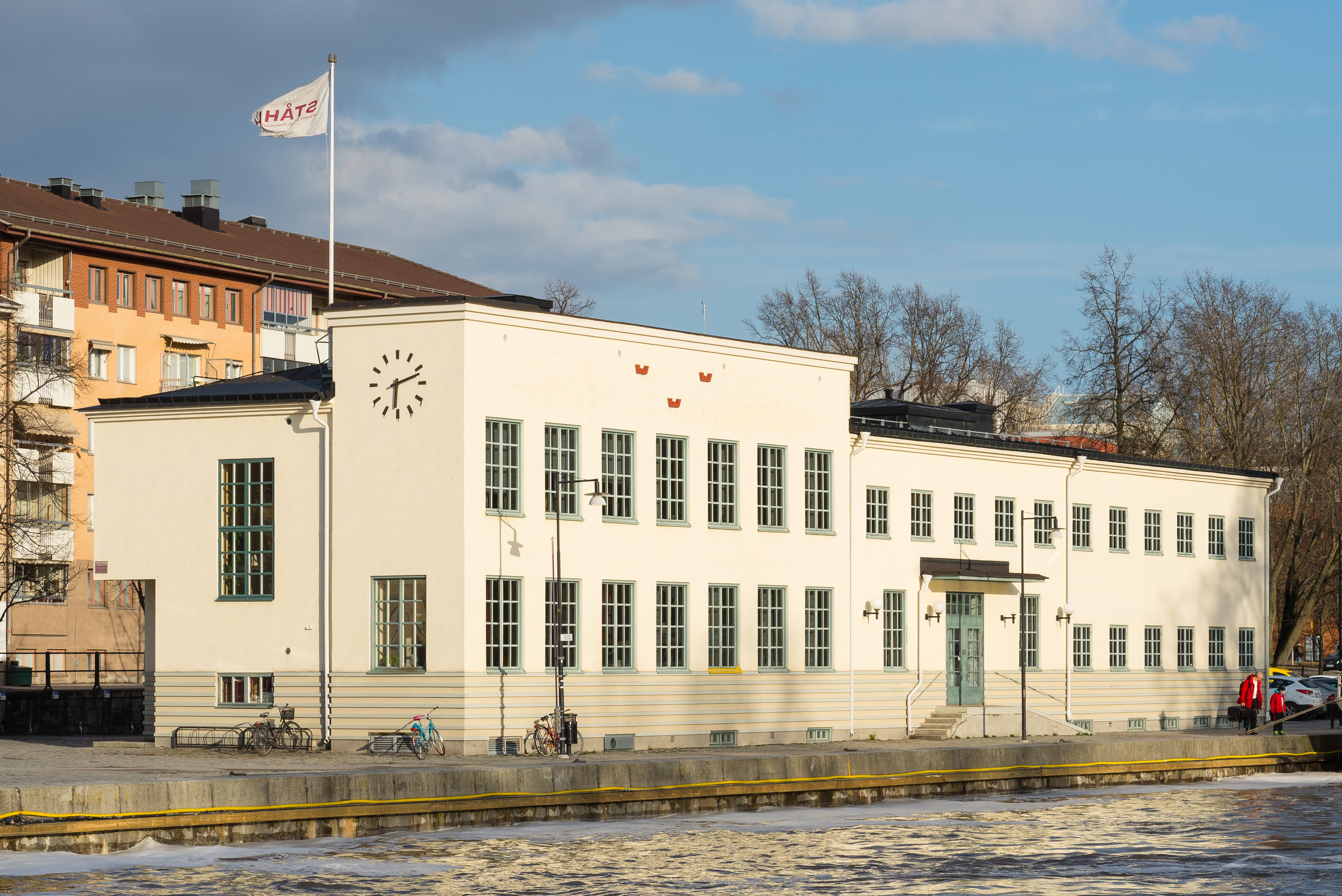 Tullhuset (custom house), Uppsala. Built 1936. Architect:Per Benson.